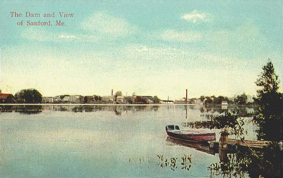 The dam and view of Sanford, Maine